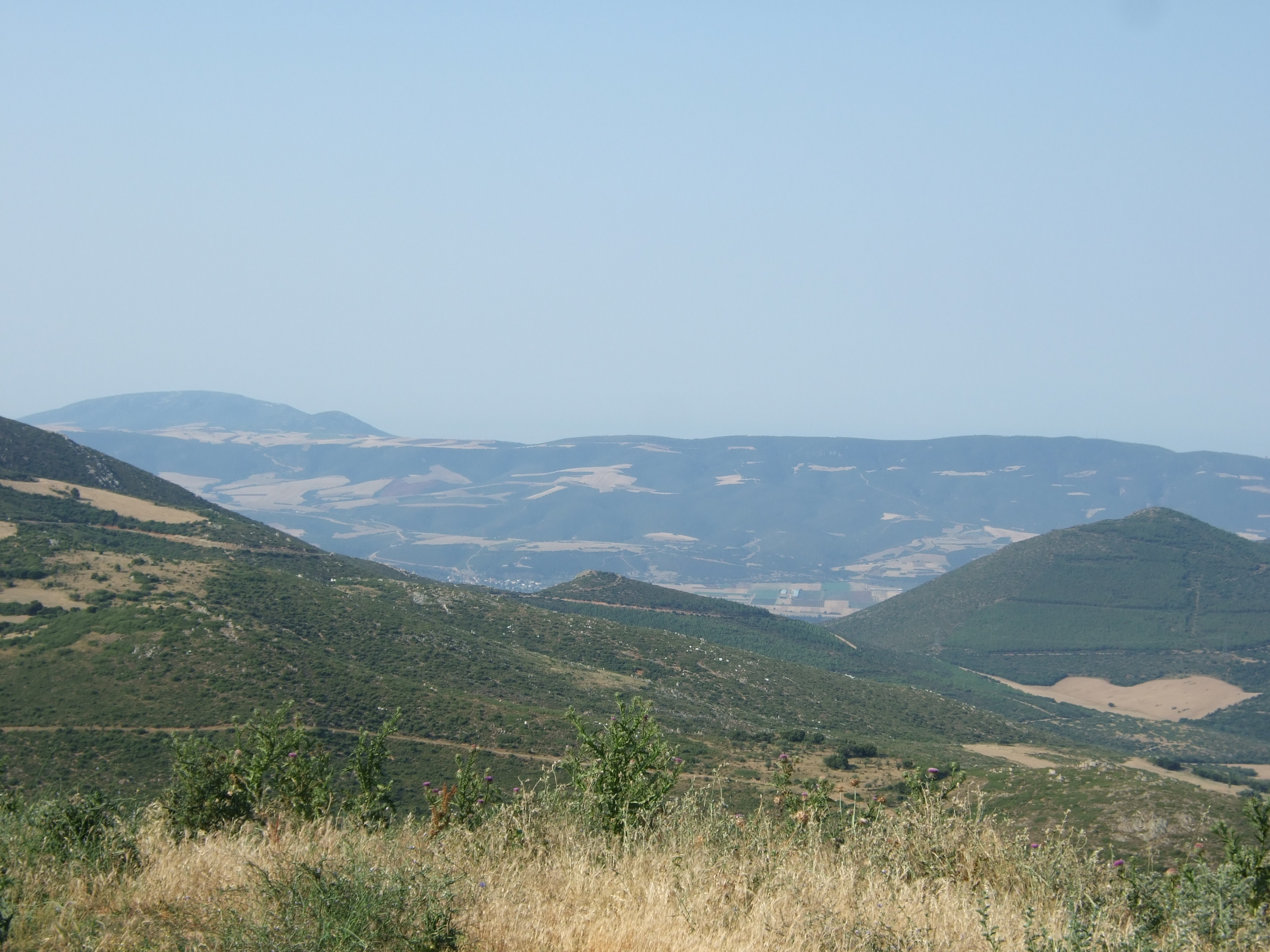 Chortiatis Mountains source name: dscf_F30-2_010005_Chortiatis-Gebirge_-_Aussicht.jpg